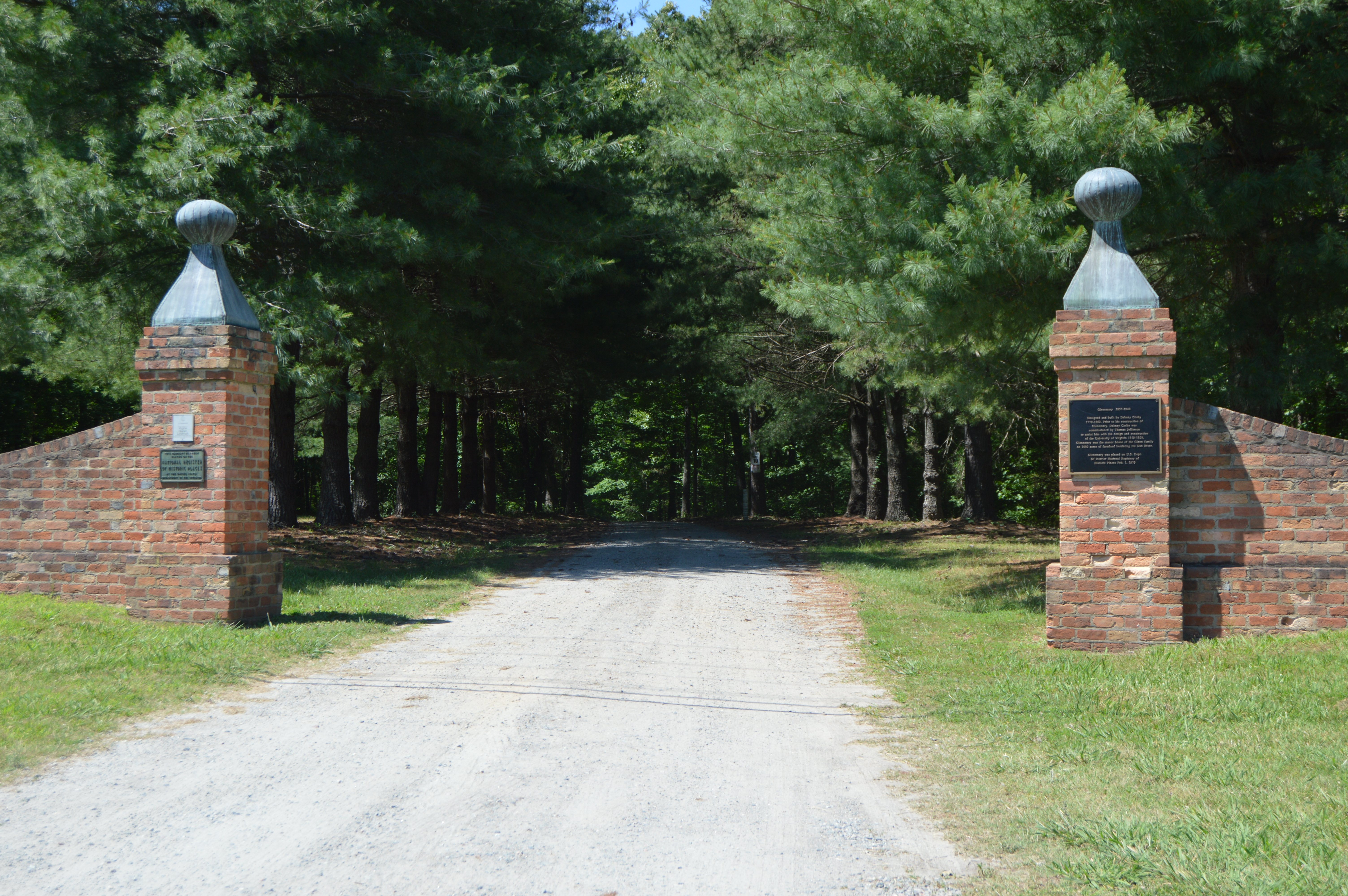 Entrance to the Glennmary estate, located on U.S. Route 58 southwest of South Boston in Halifax County, Virginia, United States. The estate is listed on the National Register of Historic Places.